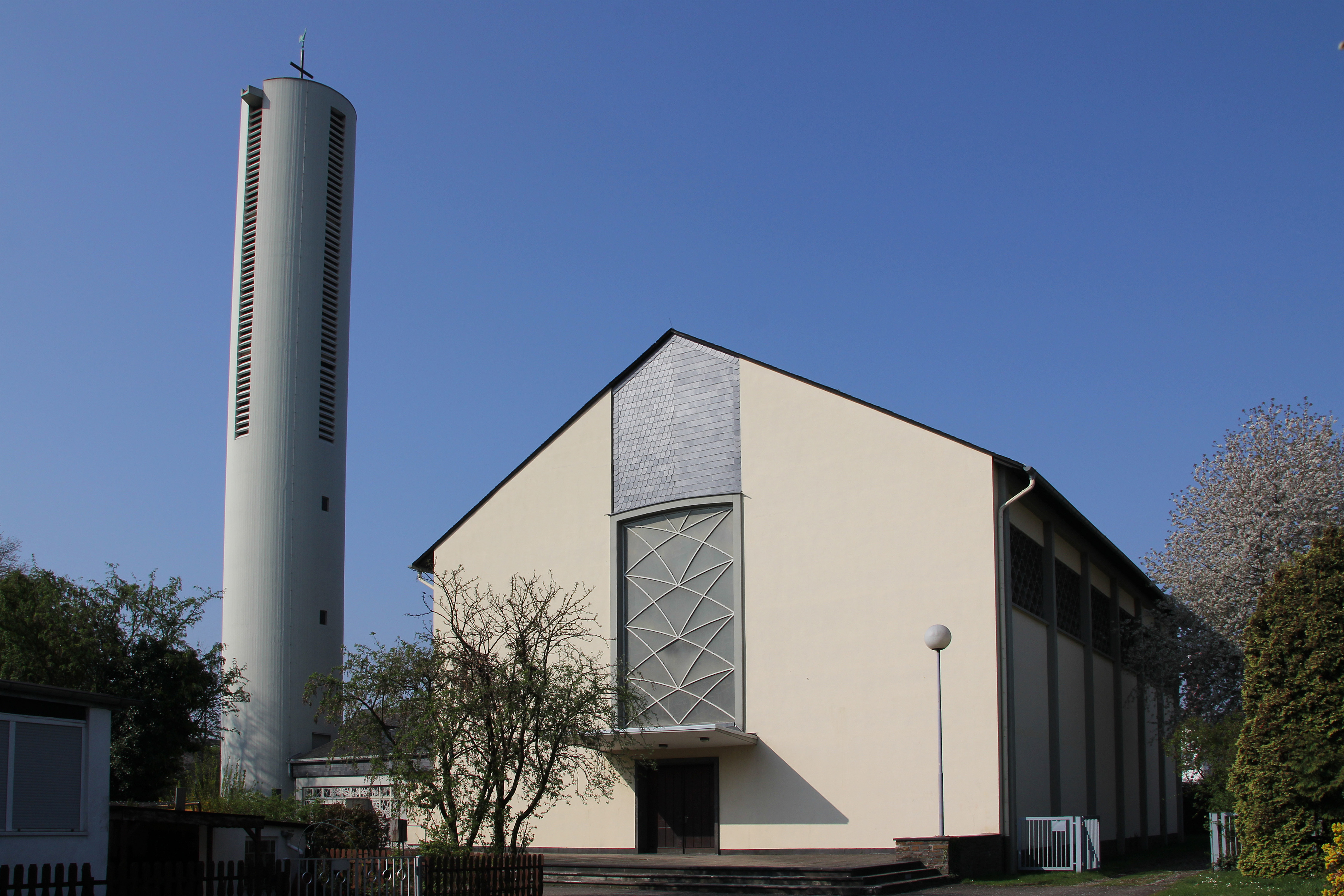 St. Konrad Church in Koblenz